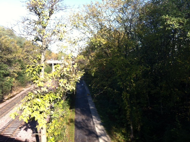 Green Bay Trail in Winnetka, IL. Picture taken from the Elm Street Bridge